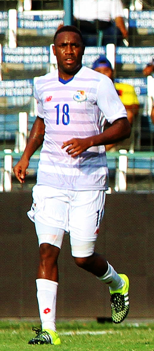 Guayaquil, 06 de jun (Andes).-En el estadio George Capwell, la selección de fútbol de Ecuador se enfrenta a Panamá en partido amistosoFoto: César Muñoz/Andes Luis Tejada